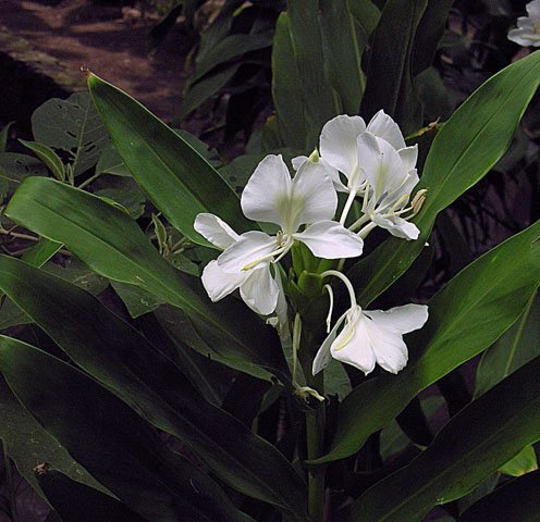 Dick Culbert: Despite its distant origin, Hedychium coronarium has been made the national flower of Cuba. Extensively naturalized, it is known in Latin America by names such as Flor de San Juan and Mariposa Blanca.